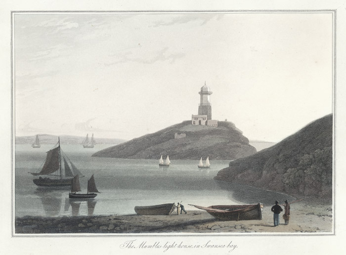 A view of Mumbles light house in Swansea bay with boats in the foreground.